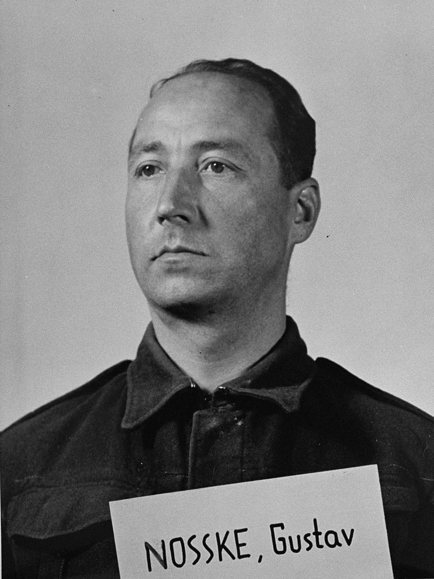 Gustav Nosske (1902-1990), German SS-Officer of the Einsatzgruppen killing squads. This photograph of Nosske was taken by US Army photographers on behalf of the Office of Chief of Counsel for War Crimes (OCCWC) during Nuremberg Trial IX (Einsatzgruppen Trial / Einsatzgruppen-Prozess).